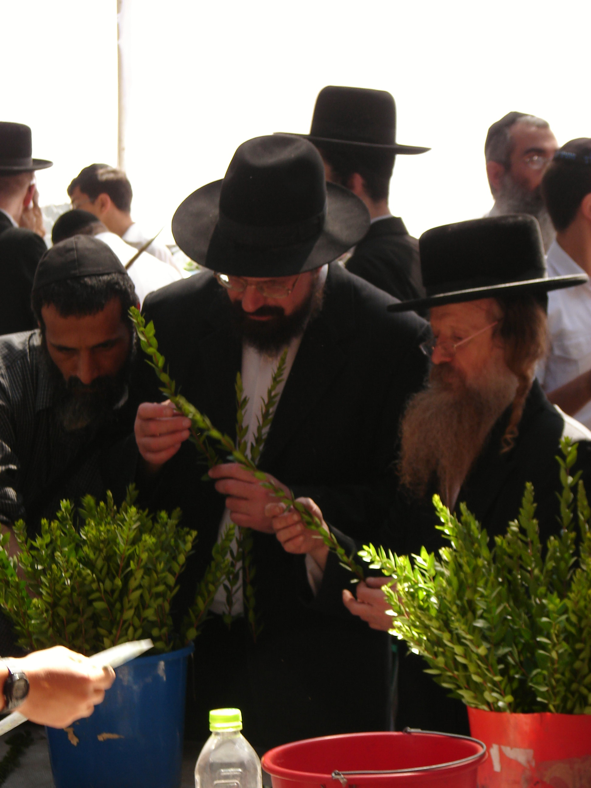 People examining sprigs of Myrtle at Bnei Brak "Four Species Market" before Sukkot